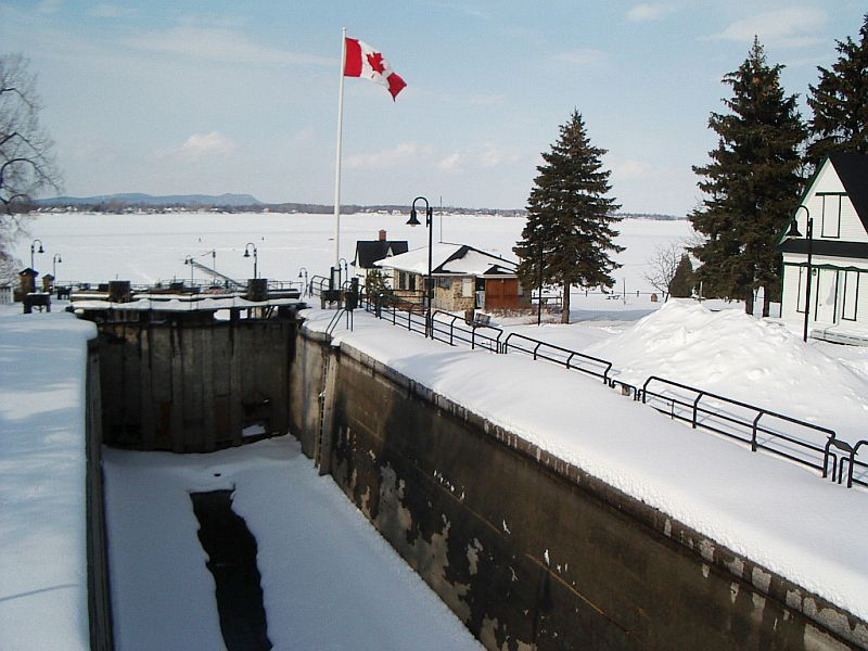 Ecluse de Chambly, viewed in winter.